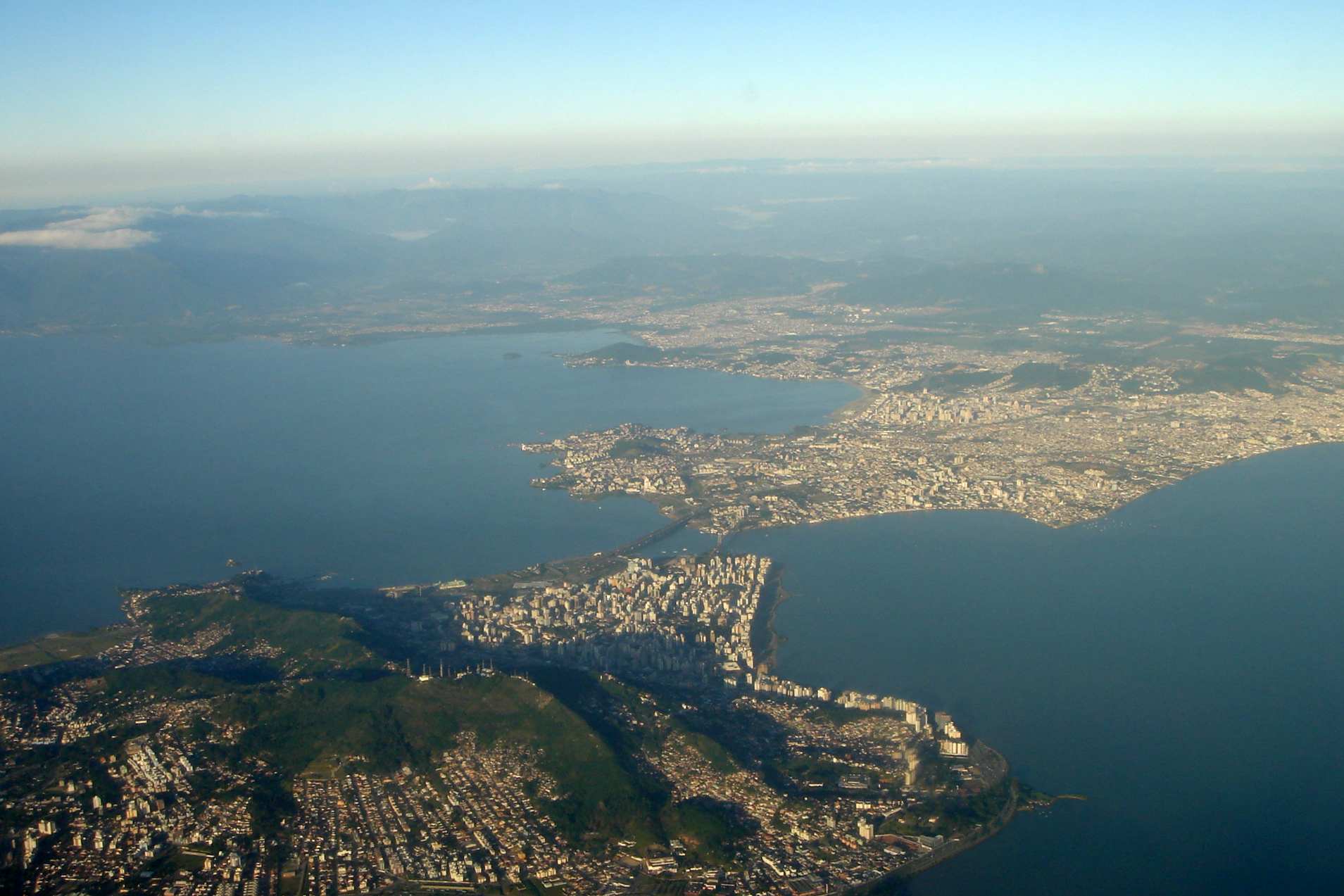 Aerial view of the city of Florianópolis, capital of Santa Catarina state, Brazil. The continent is in the background and the island of Santa Catarina in the foreground